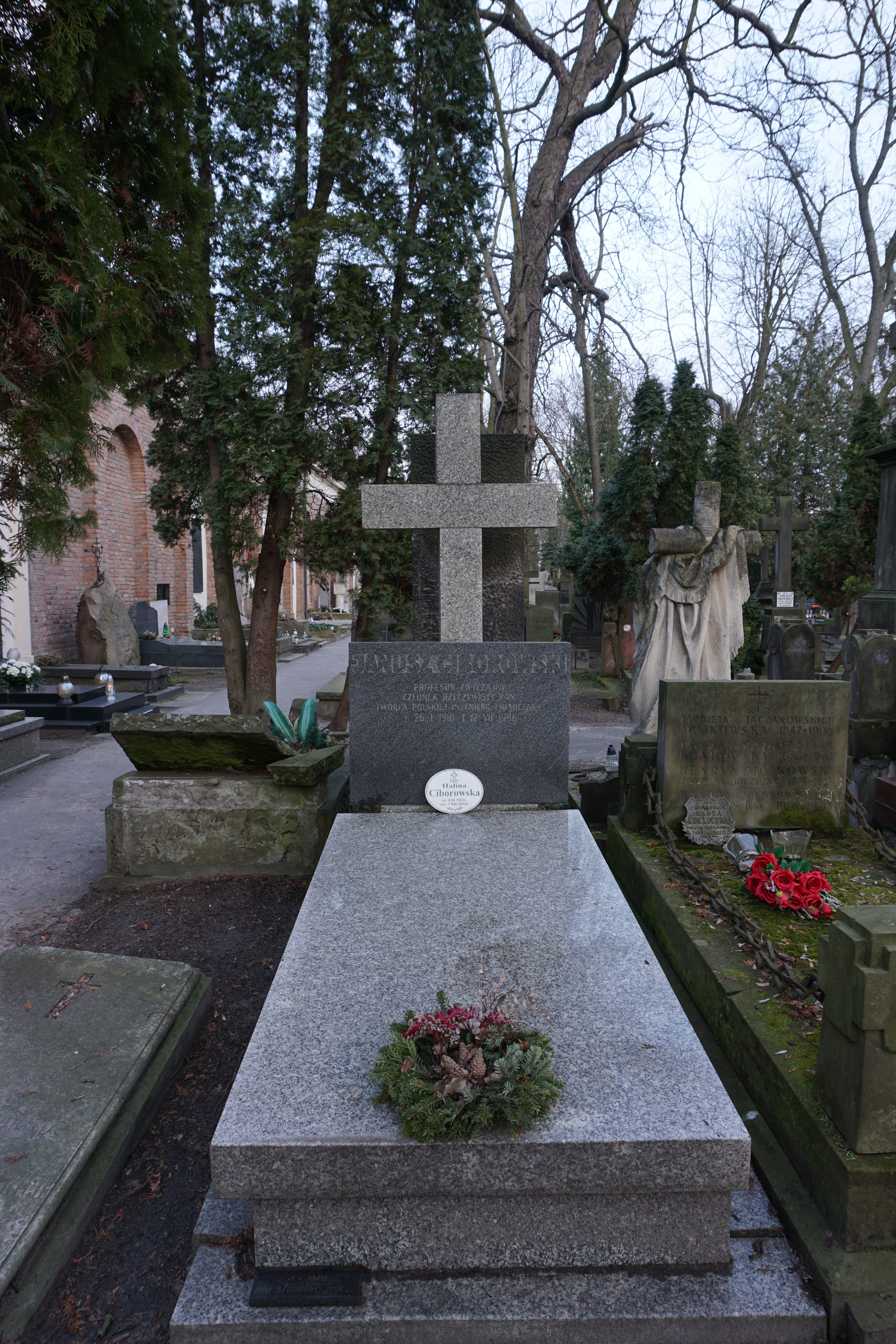 The grave of Janusz Ciborowski at the Powązki Cemetery (section 172, row 2, grave 2)